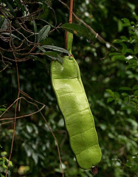 Garambi or African Dream Herb Entada rheedei syn. Entada scandens at Talakona forest, in Chittoor District of Andhra Pradesh, India.